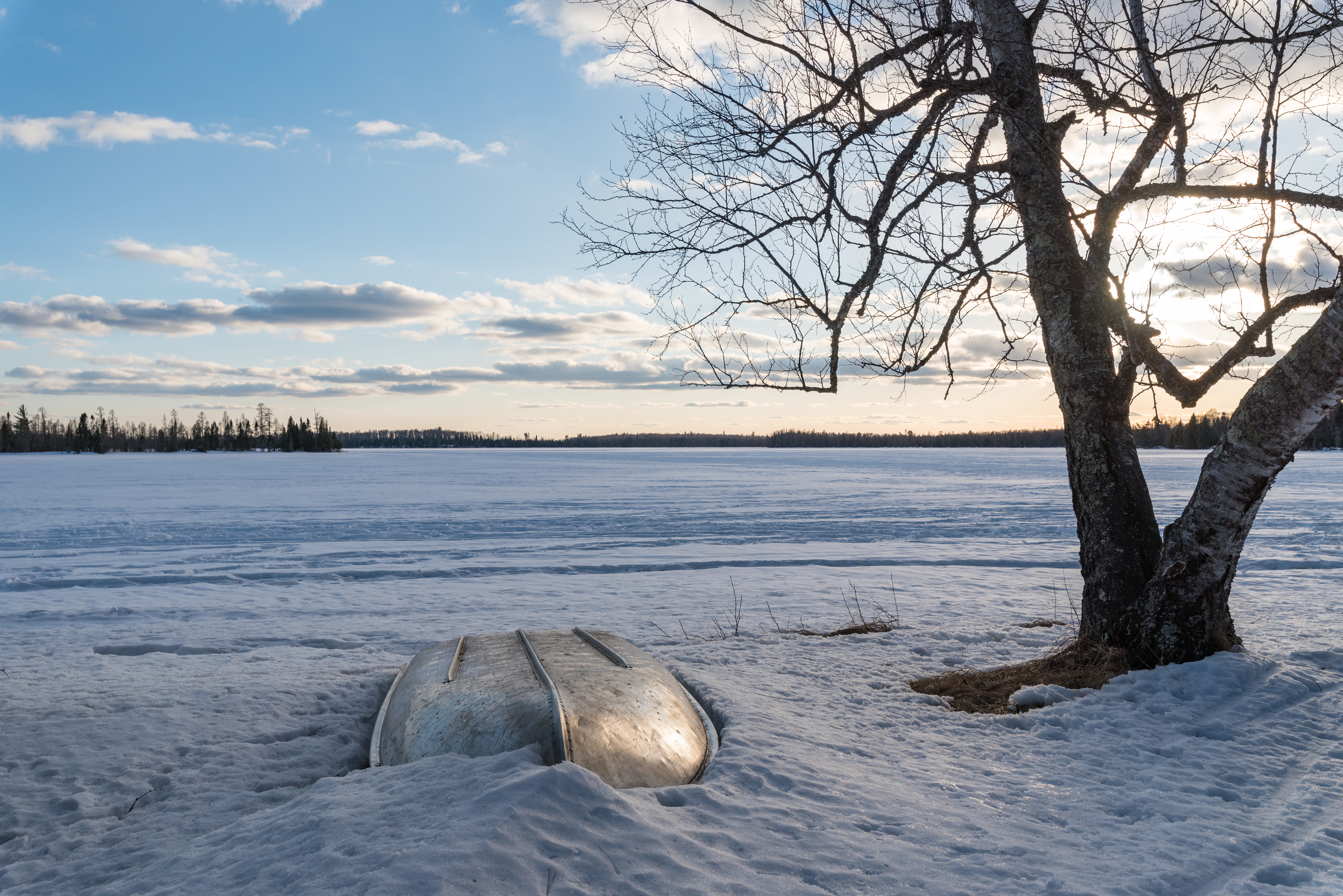 A rowboat is buried in snow at Bear Head Lake State Park in Northern Minnesota, in winter. -- © 2018 Tony Webster 202-930-9200